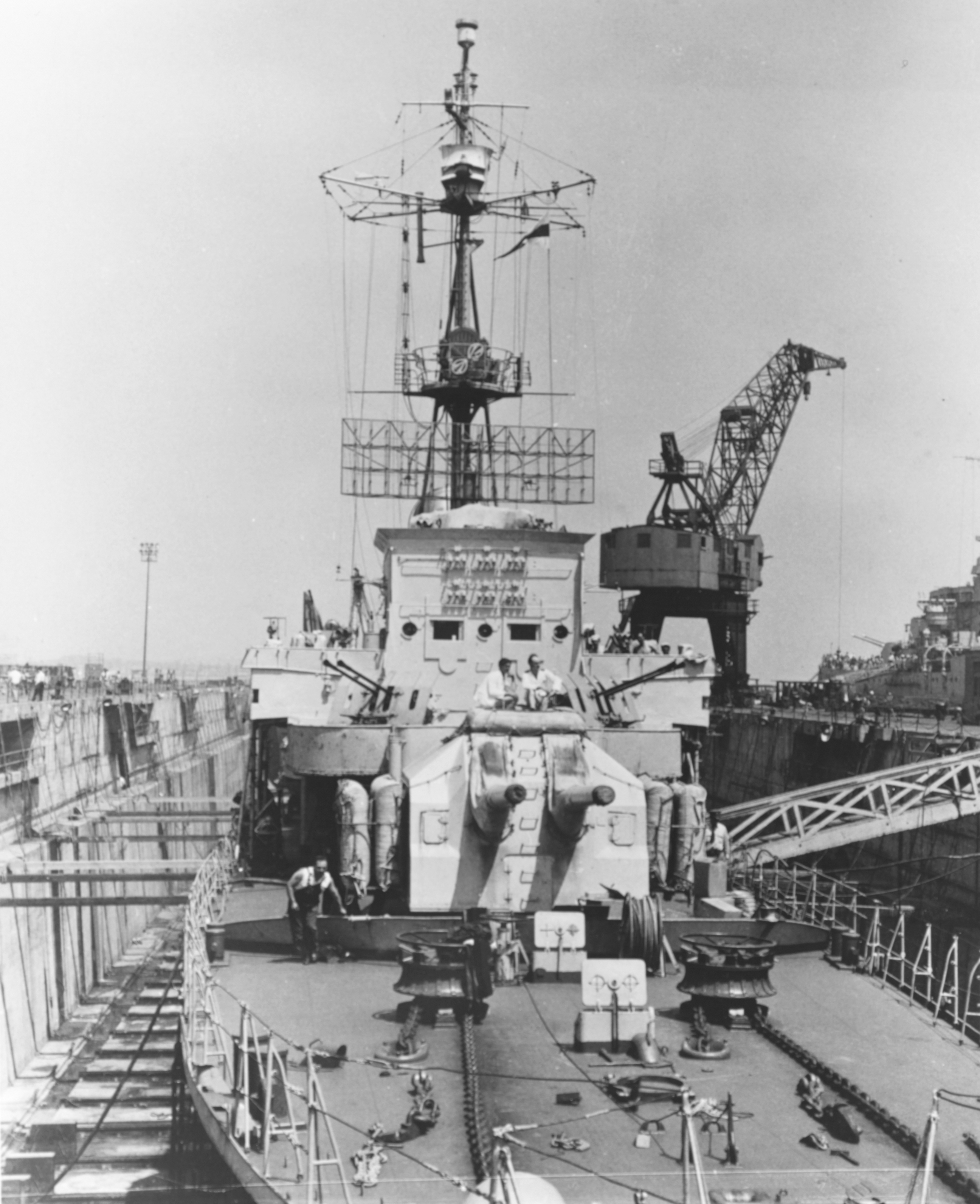 The former German destroyer Z 39 in a drydock at the Boston Navy Yard, Massachusetts (USA), 11 August 1945. The U.S. Navy designated the destoyer DD-939. Note the 150 mm TbtsK C/36 twin guns.